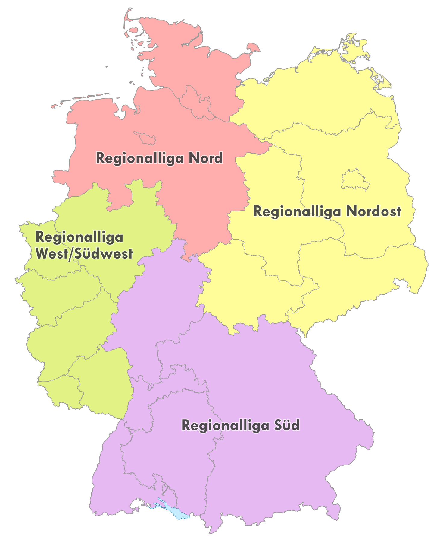 Map of German Soccer Regionalliga, 1994-2000